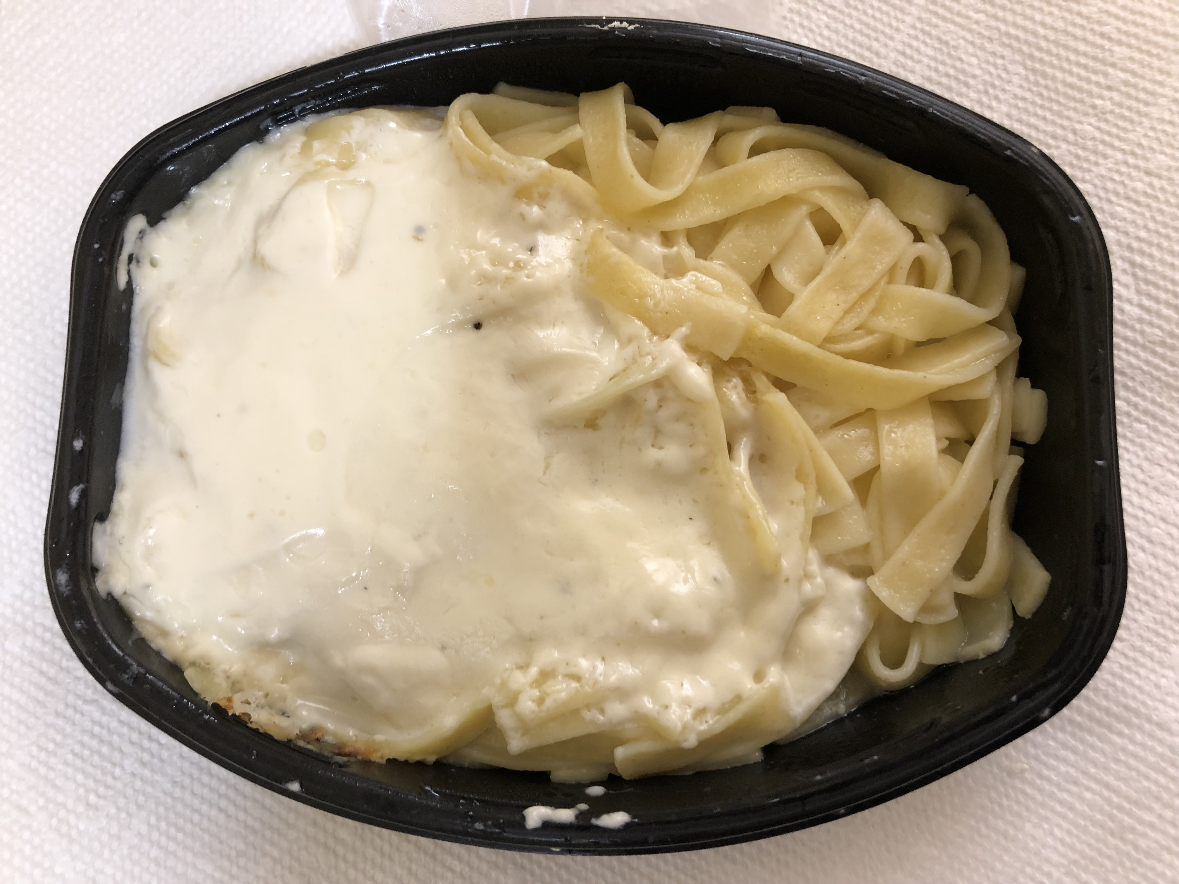 A serving of Stouffer's Fettuccini Alfredo after heating in the Franklin Farm section of Oak Hill, Fairfax County, Virginia